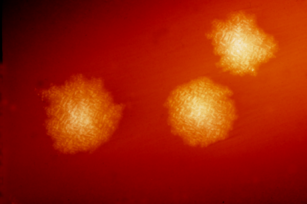 This photograph depicts Clostridium difficile colonies after 48hrs growth on a blood agar plate; Magnified 4.8X. C. difficile, an anaerobic gram-positive rod, is the most frequently identified cause of antibiotic-associated diarrhea (AAD). It accounts for approximately 15-25% of all episodes of AAD.